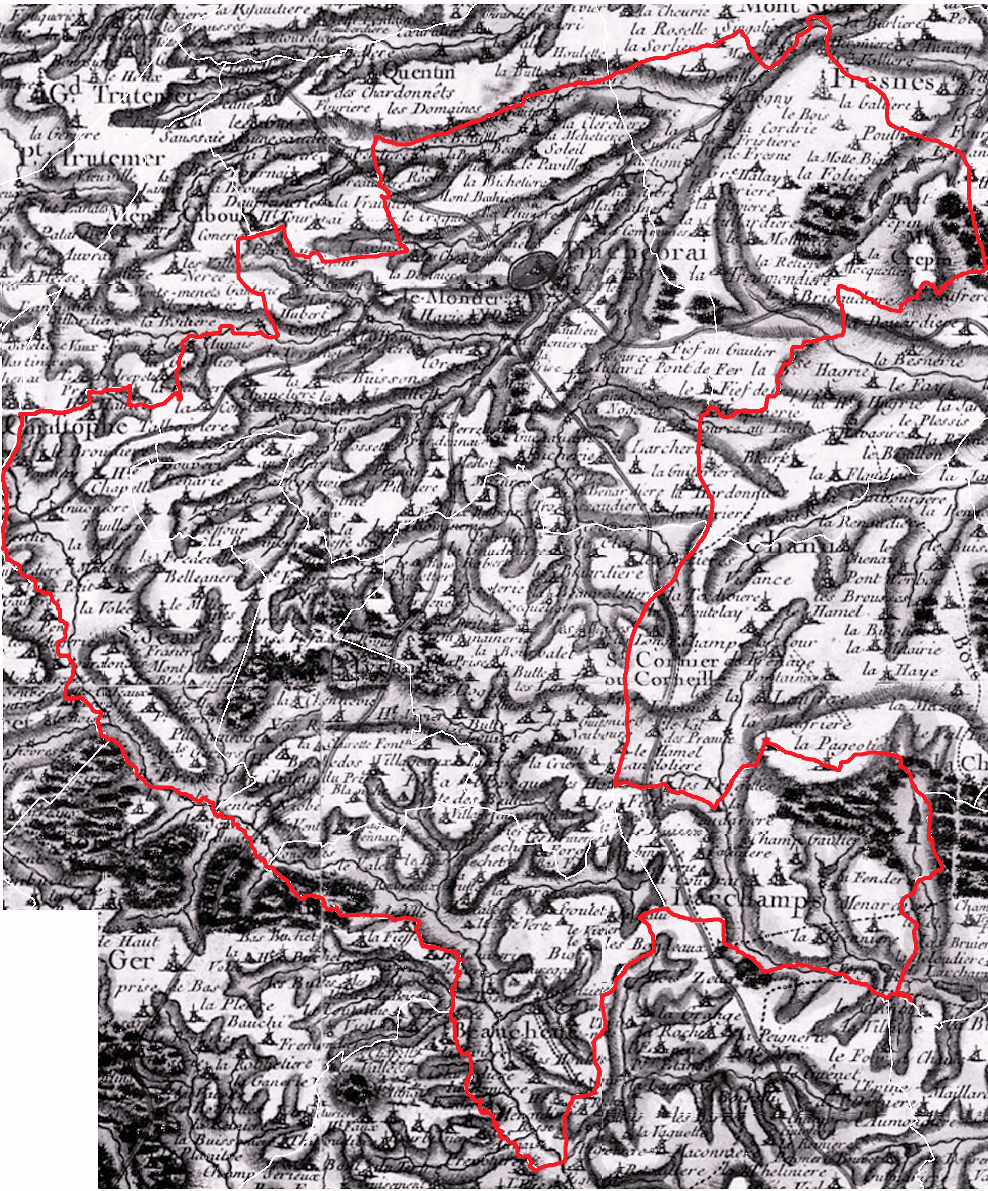 Tinchebray-Bocage, Orne sur carte de Cassini (domaine public retouchée)